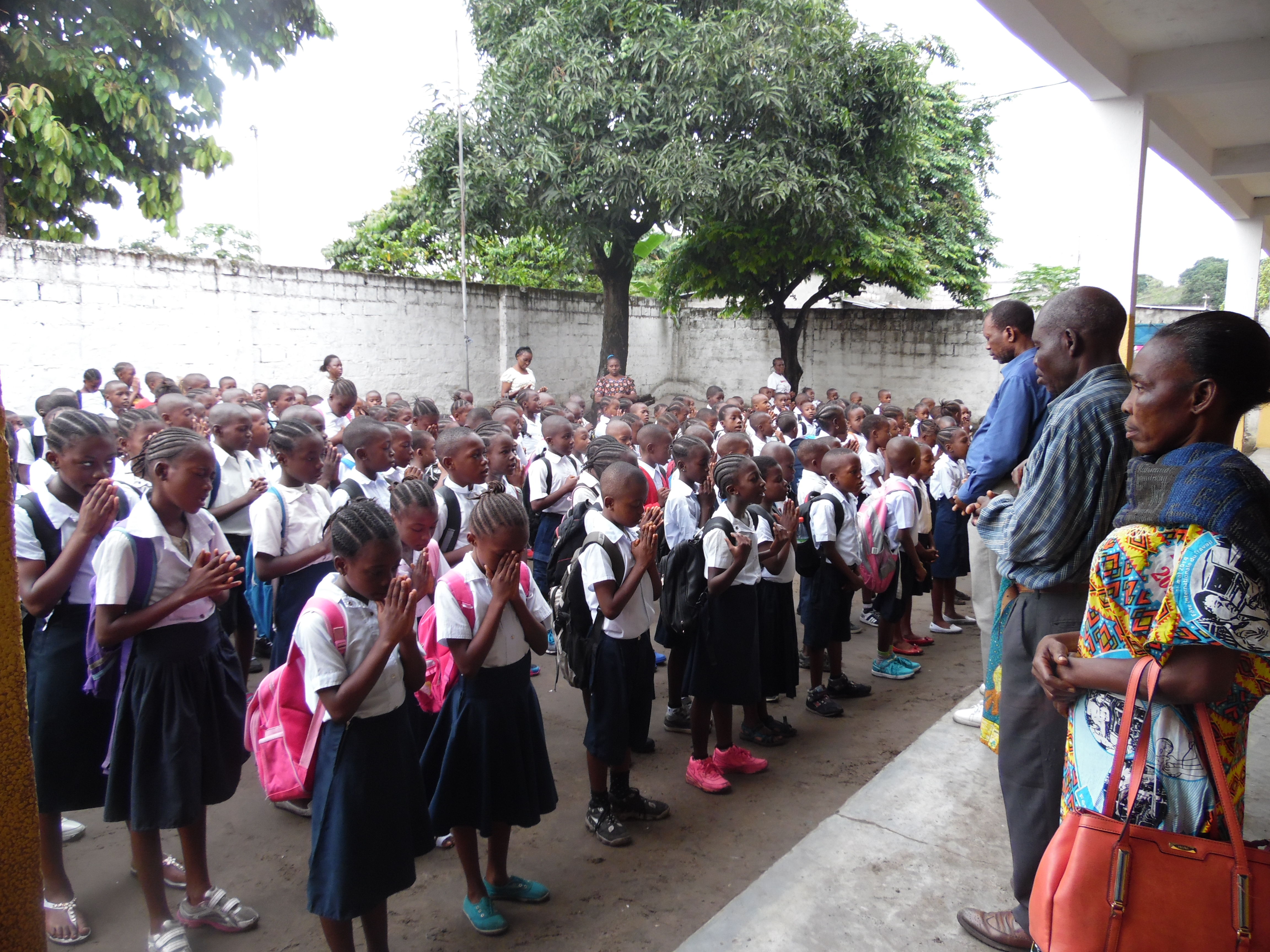 teachers at the morning appeal in a school of Kinshasa This is an image of "African people at work" from Democratic Republic of the Congo